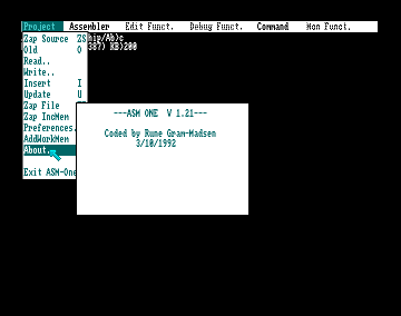 ASM-One Macro Assembler screen shot. Amiga assembler developed by Rune Gram-Madsen in 1990 and released through DMV-Verlag in 1991.